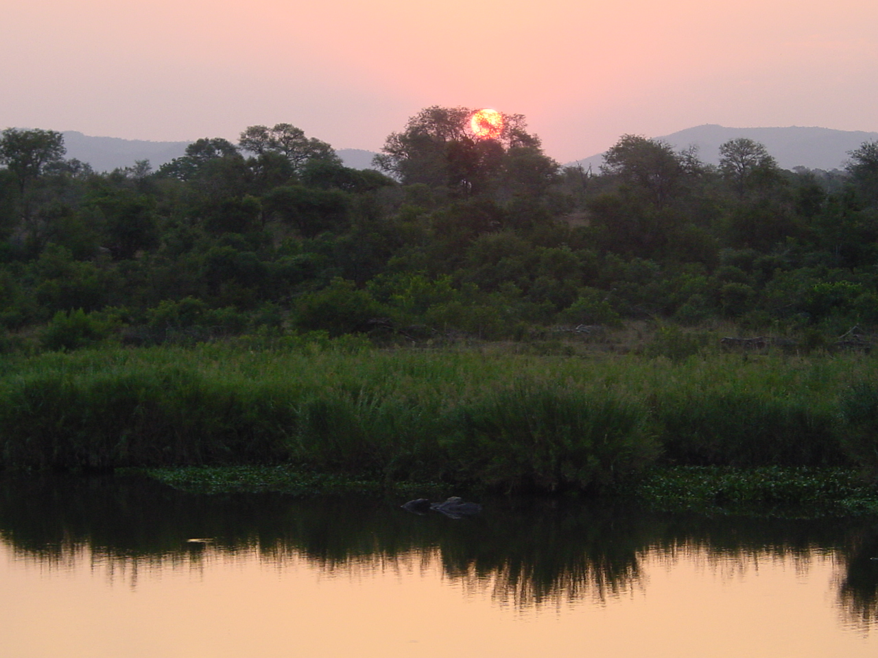 Sunset on Crocodile river, Malelane, Kruger National Park